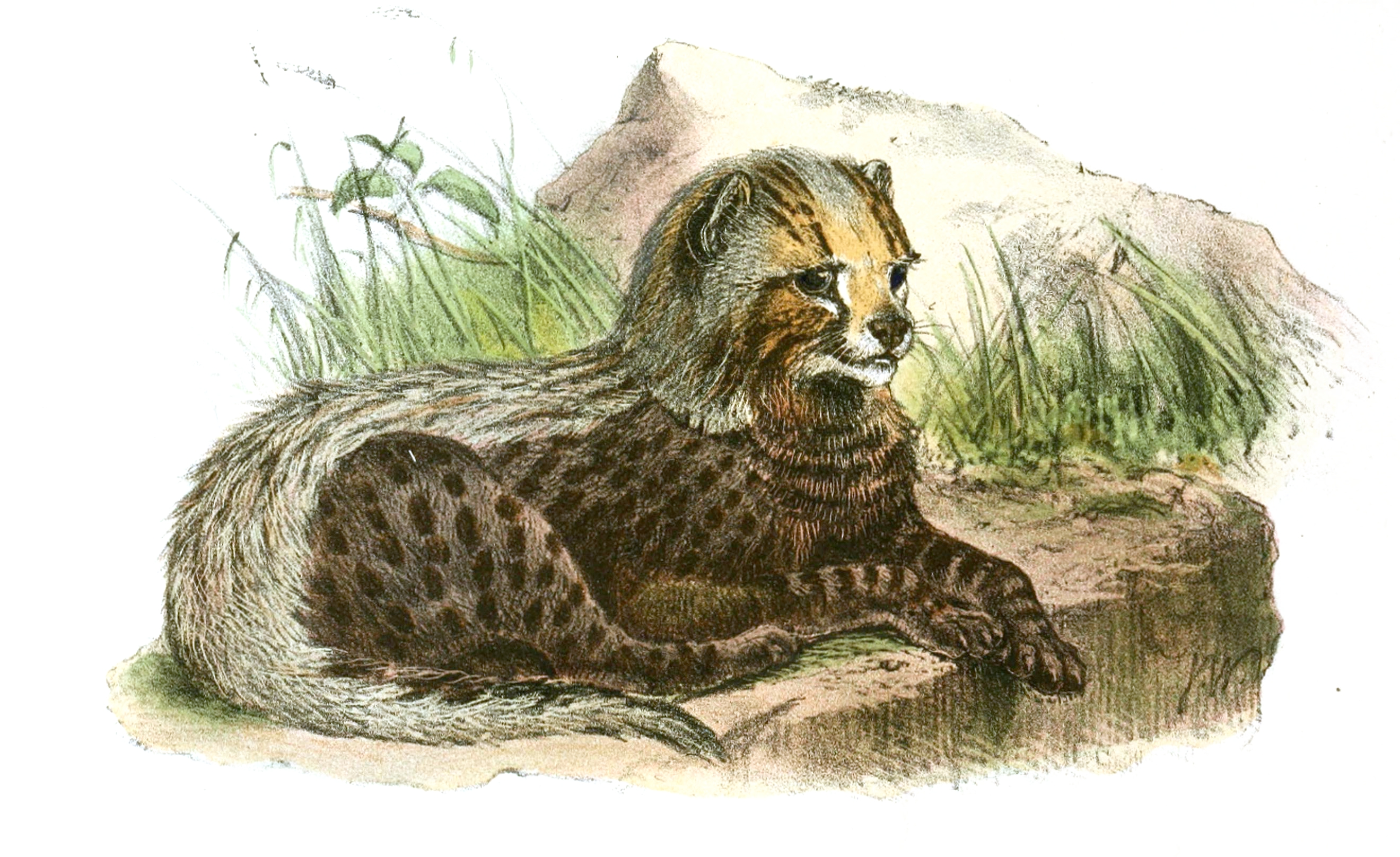 Young cheetah